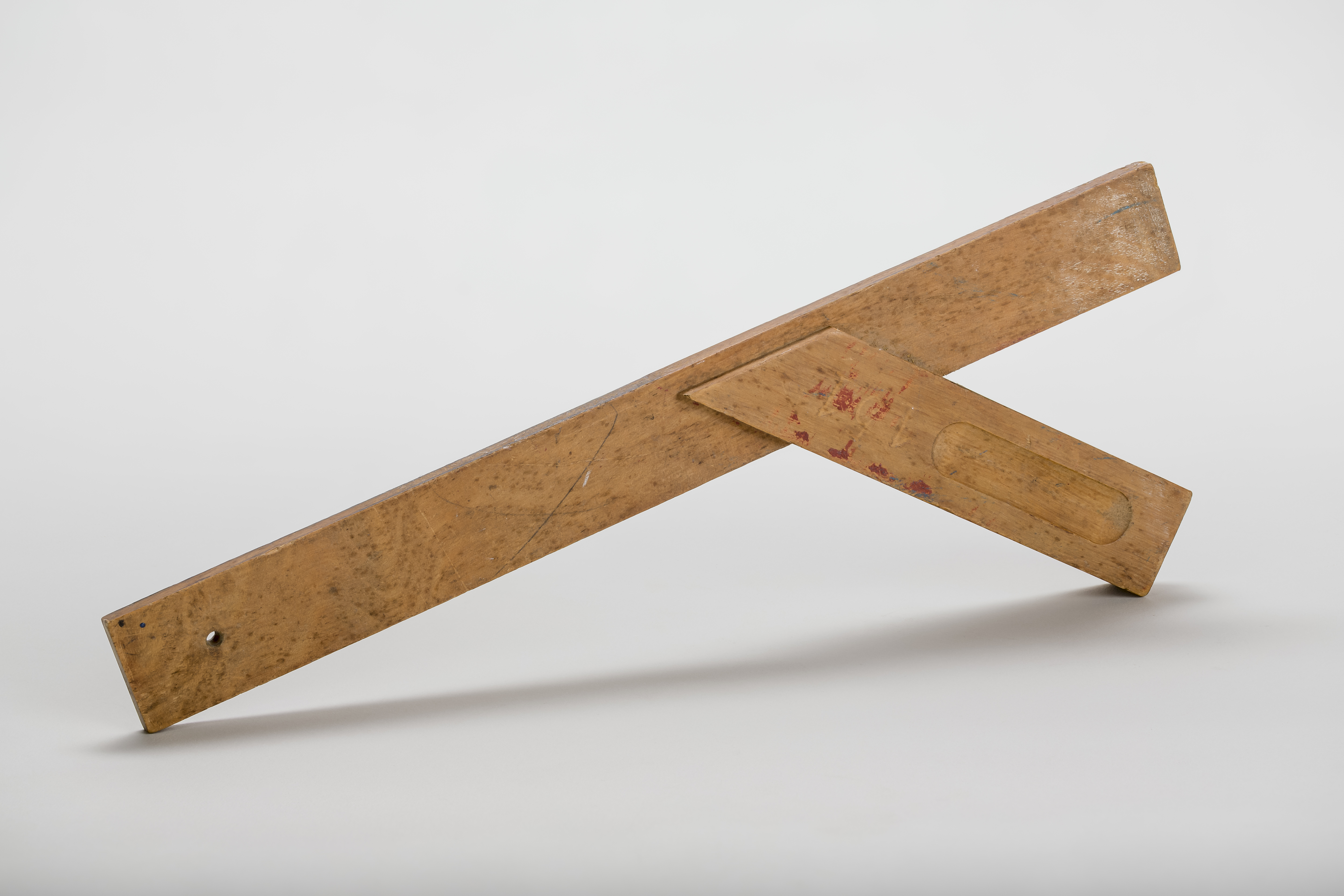 Mitre rule in white beech for marking and measuring fixed angles of 45/135°.